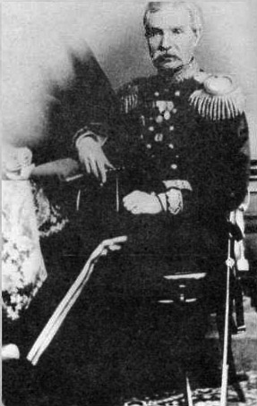 Vasily Babkin (1813-1876), Russian Hydrographer